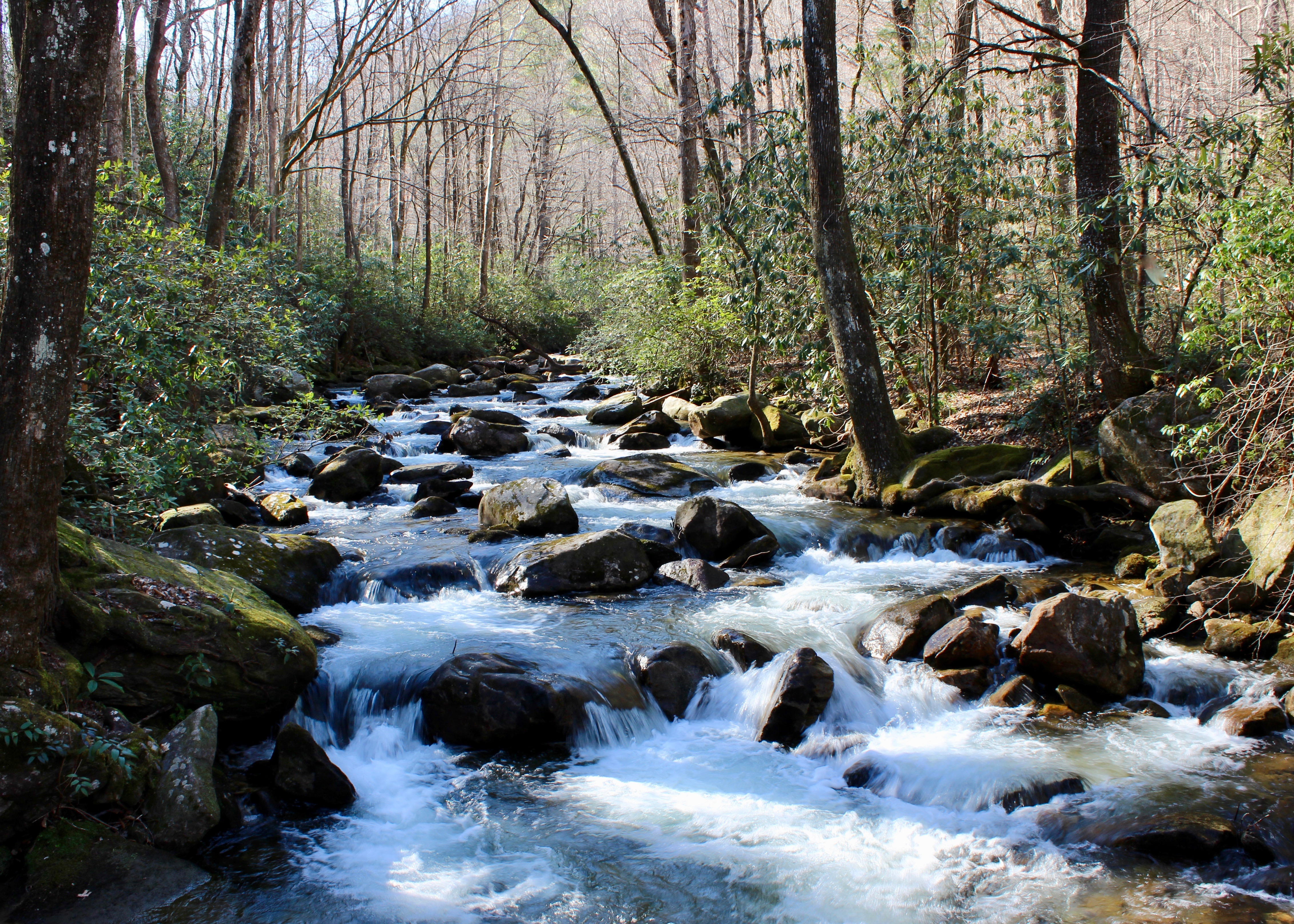 Middle Saluda River in Jones Gap State Park, Greenville County, South Carolina